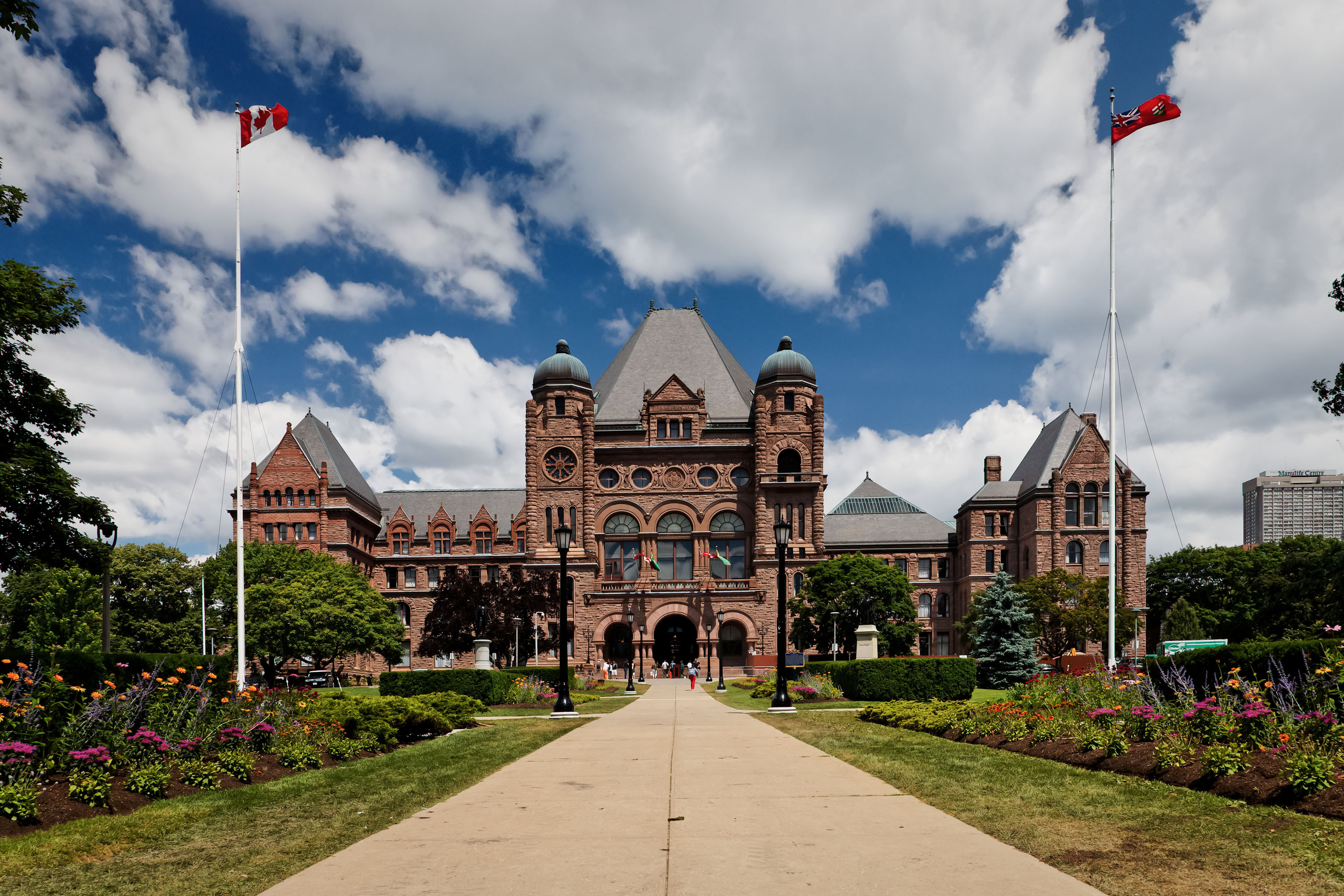 The Ontario Legislative Building on a nice sunny day. I've always wanted to get a picture of this building on a nice sunny day and I finally got an opportunity a couple days ago. In the past, every time I plan to take a picture of the building it always ends up being cloudy and gloomy. Oh and Happy Canada Day!!! Toronto, Ontario